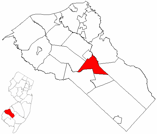 Map of Gloucester County highlighting Glassboro